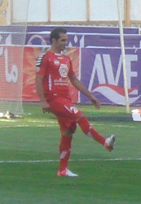 Hadi Norouzi, Iranian footballer